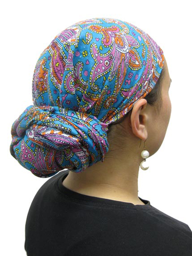 Women's Tichels, Headscarves, (image from )